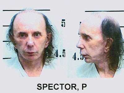 Phil Spector in a 2009 prison photograph.